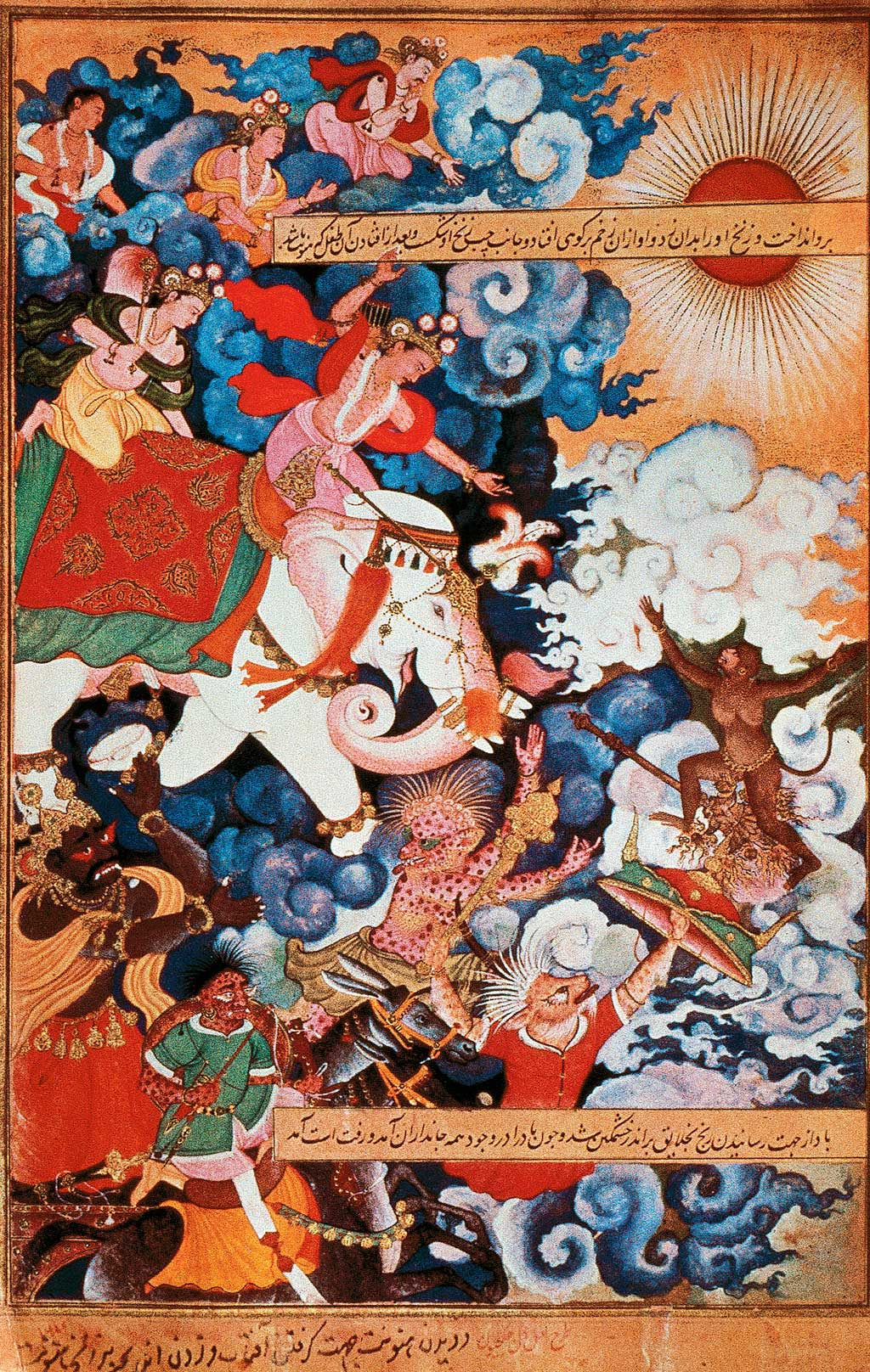 Uttarakanda of Ramayana